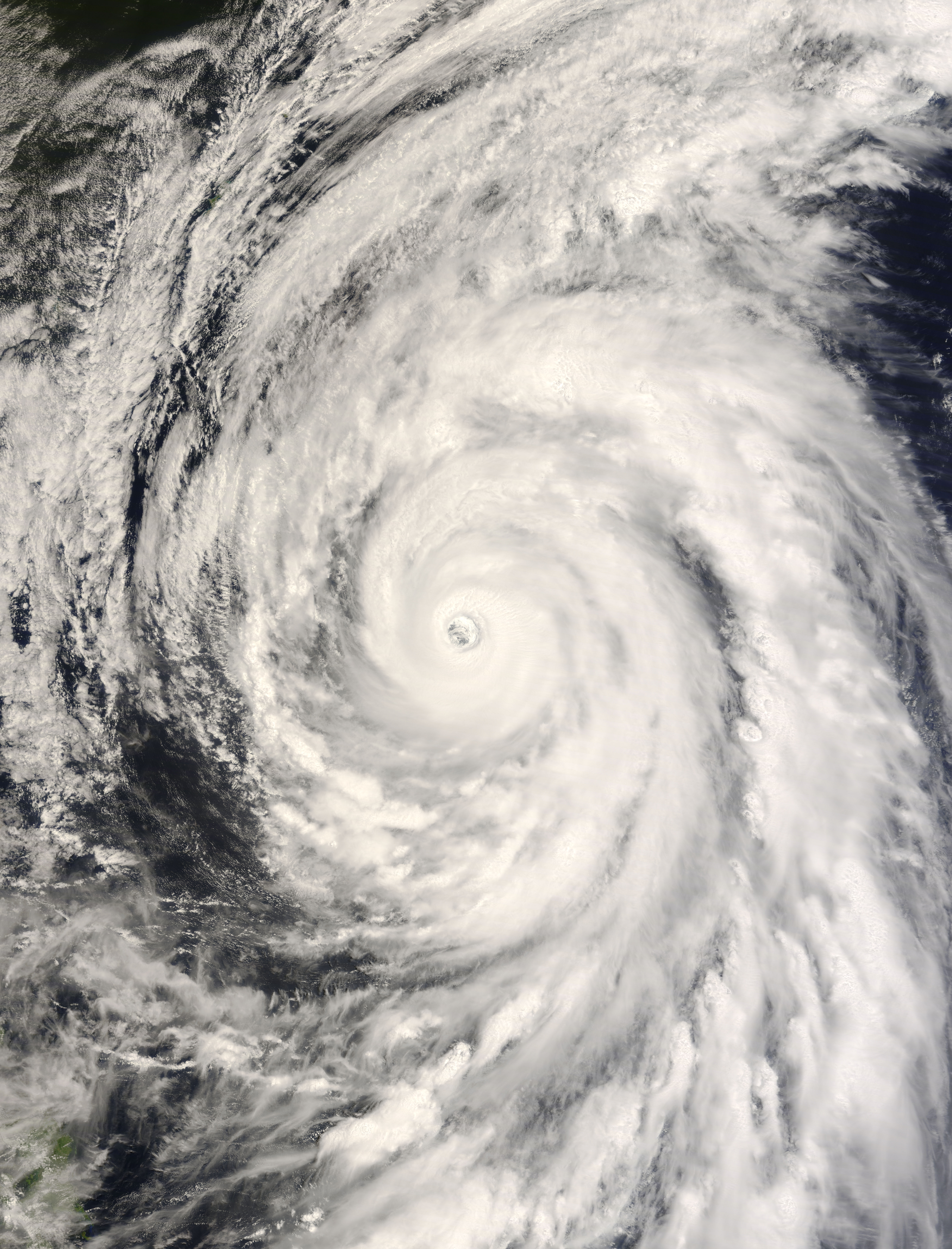 MODIS image of Typhoon Rammasun.